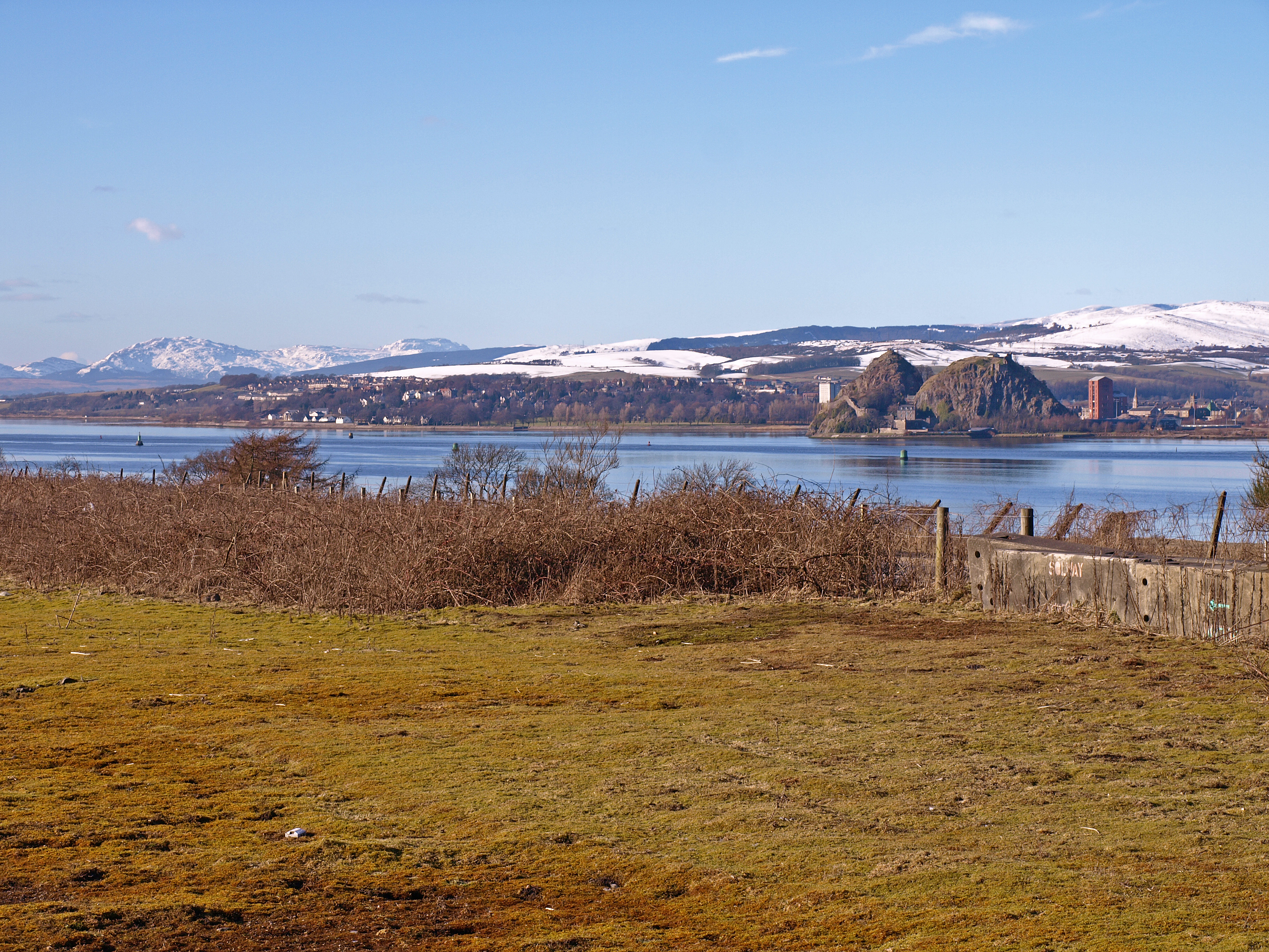 View over the River Clyde Taken from the small road that joins the A8 to the Old Greenock Road. A strange flat piece of land totally covered in moss with blocked off access to A8. Dumbarton Rock across the river. Far in the distance the Cowal Hills.